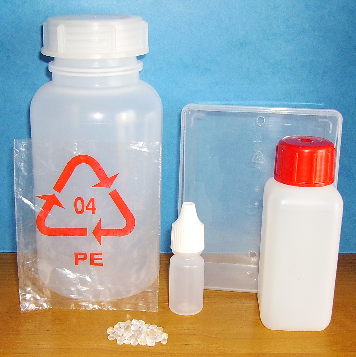 Various objects made of polyethylene (PE) and polypropylene (PP) (polyolefins).